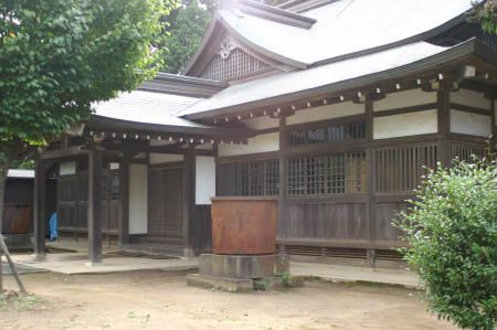 Picture of the Kendou dojo of Kashima Shrine at Ibaraki, Japan. Taken by Claus Aranha (myself) at August, 2005